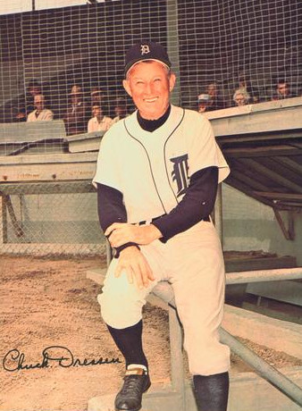 Professional baseball manager Chuck Dressen